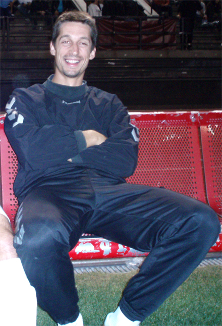 Milan Janošević smiles following a Canadian Soccer League match against the Canadian Lions in 2007.